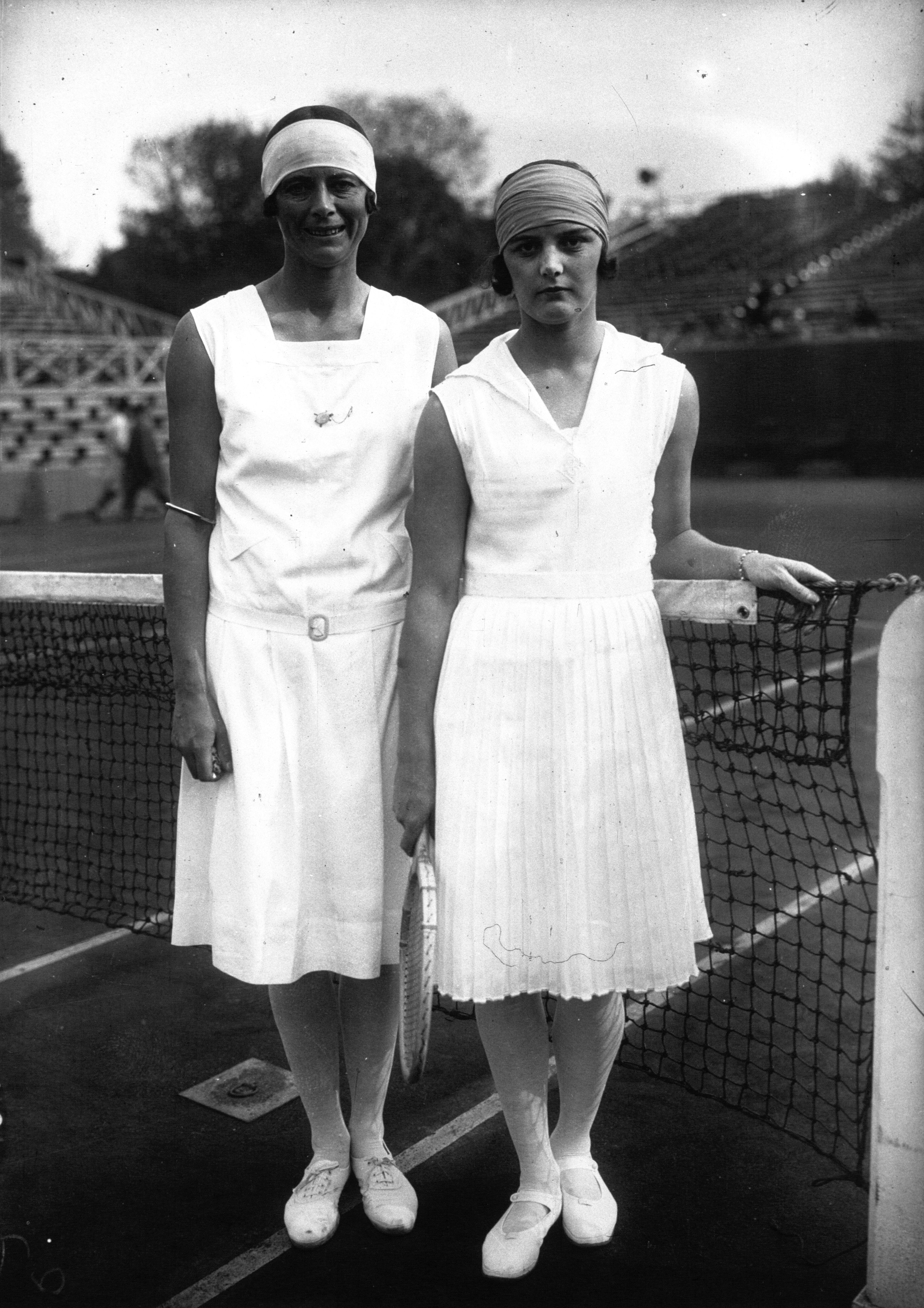 British tennis players Phoebe Holcroft Watson (l) and Eileen Bennett (r) at the 1928 French Championships at the Stade Roland Garros in Paris.